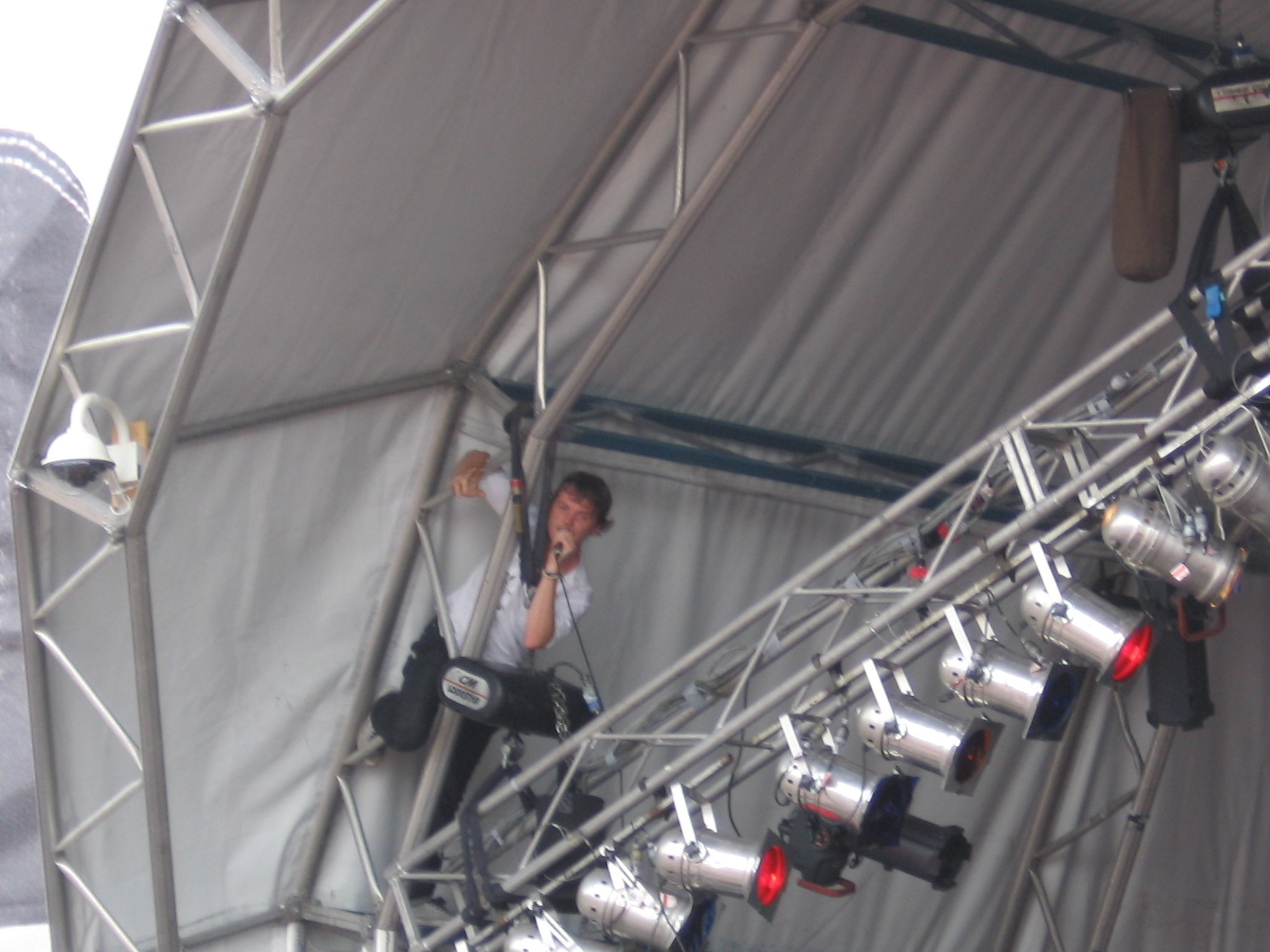 Nathan Hudson singing 'Hurricane' from the scaffolding of the stage at the 2007 Big Day Out festival in Sydney.